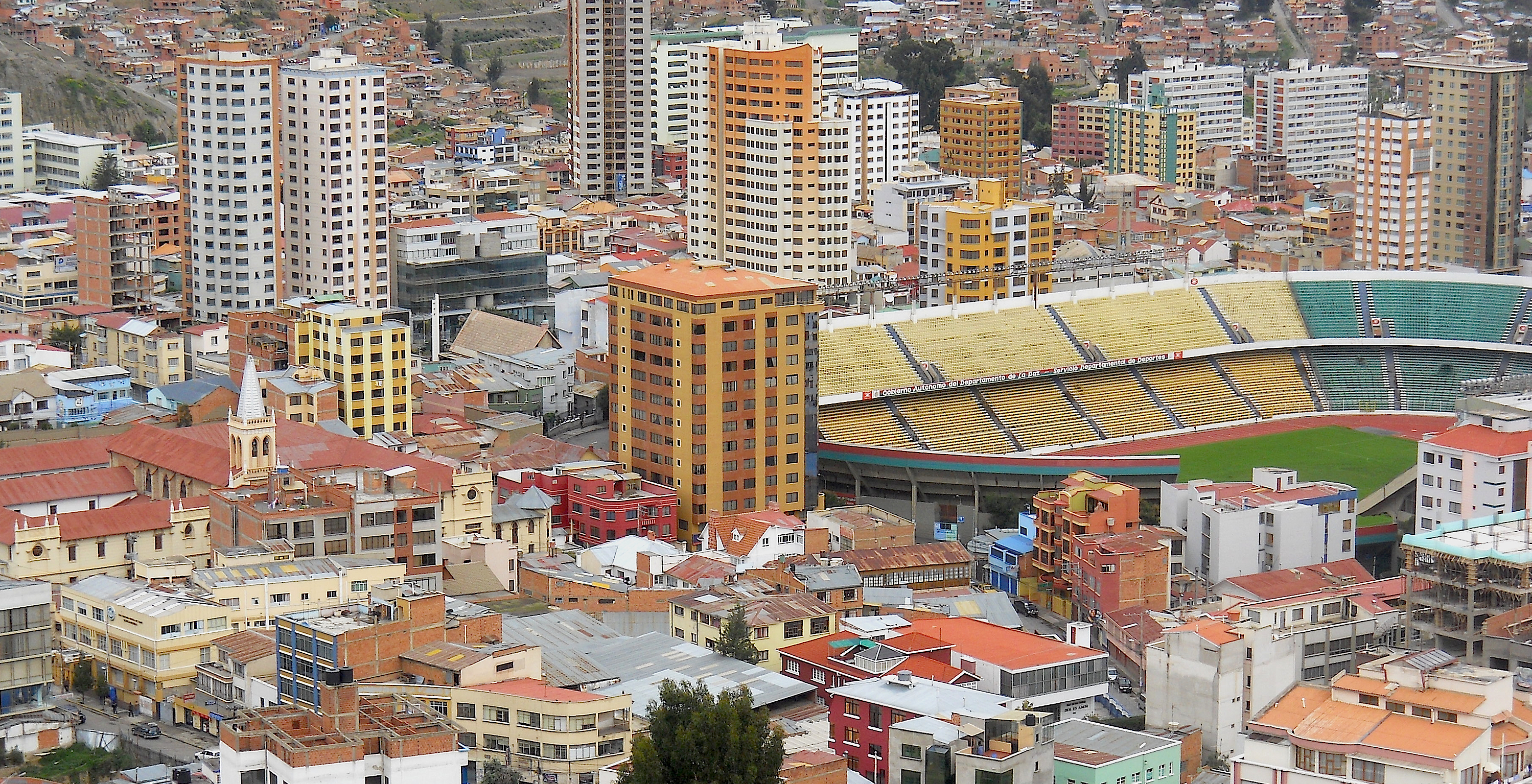 The Miraflores borough with Hernando Siles Stadium in La Paz, Bolivia.